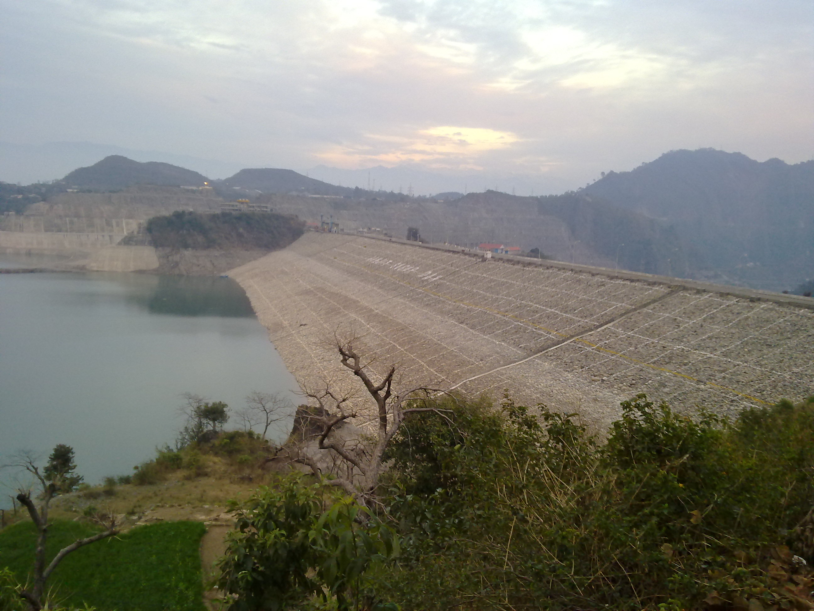 Ranjit Sagar Dam on Ravi River, Punjab & Jammu and Kashmir, India. From J&K side. Thein, Basoli, Kathua.